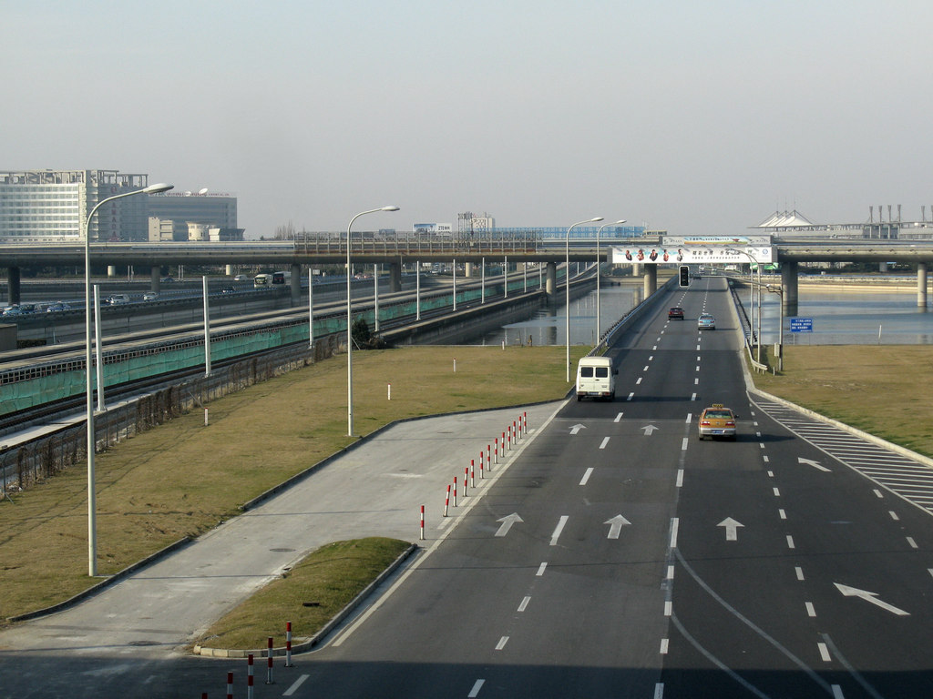 Yingbin Dadao (S1 Expressway)